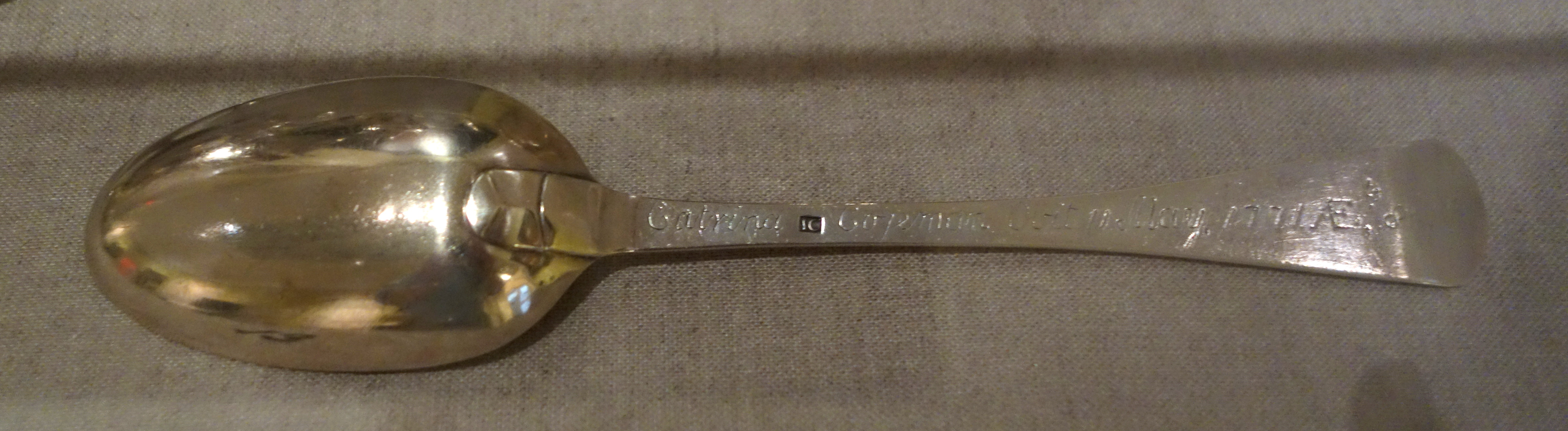 Exhibit in the Albany Institute of History and Art, Albany, New York, USA. This artwork is in the public domain because the artist died more than 70 years ago.